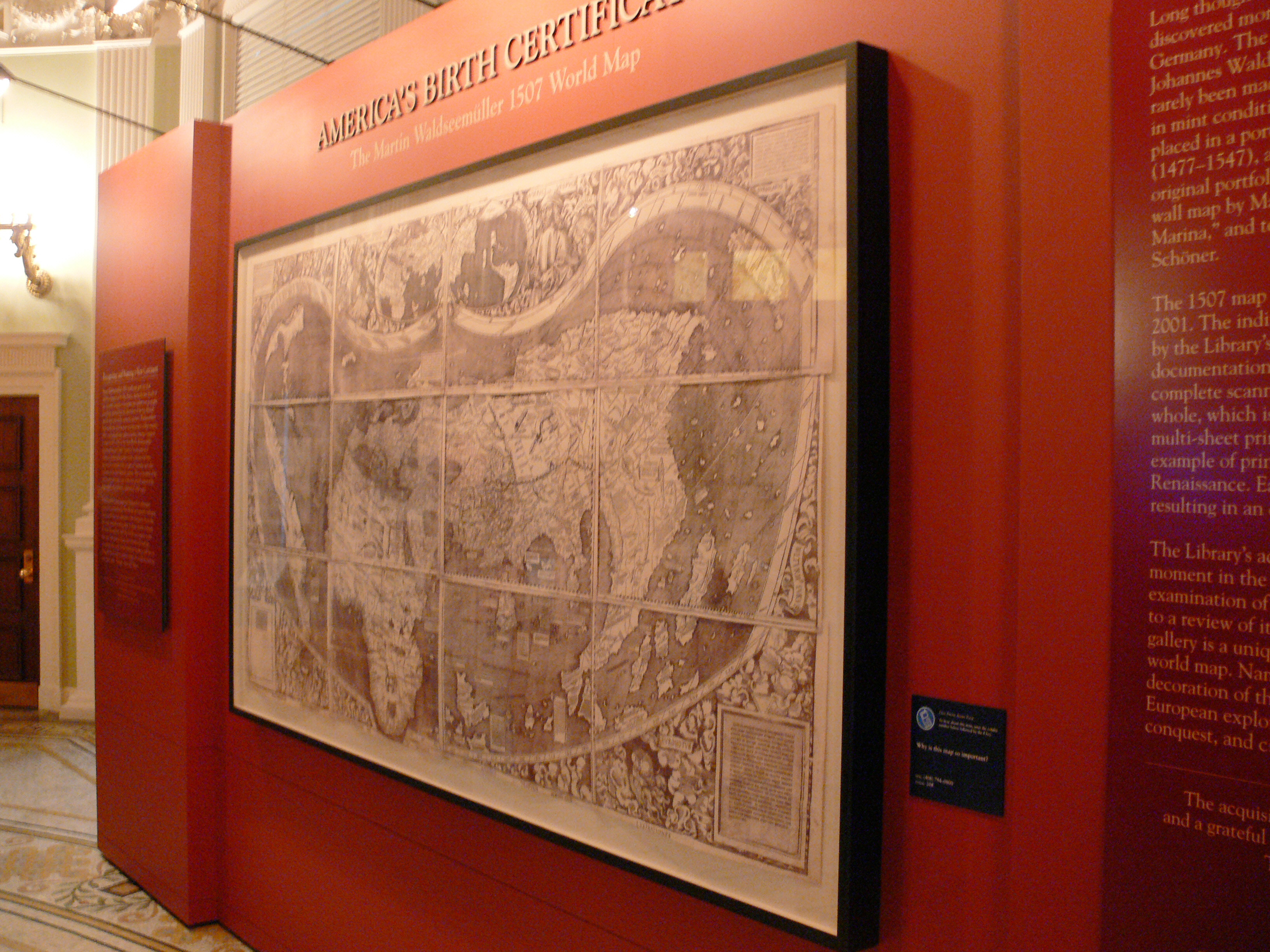 a facsimile copy of the Waldseemüller map, labelled as America's Birth Certificate, on display in the Treasures Gallery, Library of Congress (Jefferson Building), Washington, D.C.